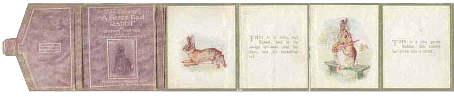 Partial facsimile of the panorama format edition of The Story of a Fierce Bad Rabbit